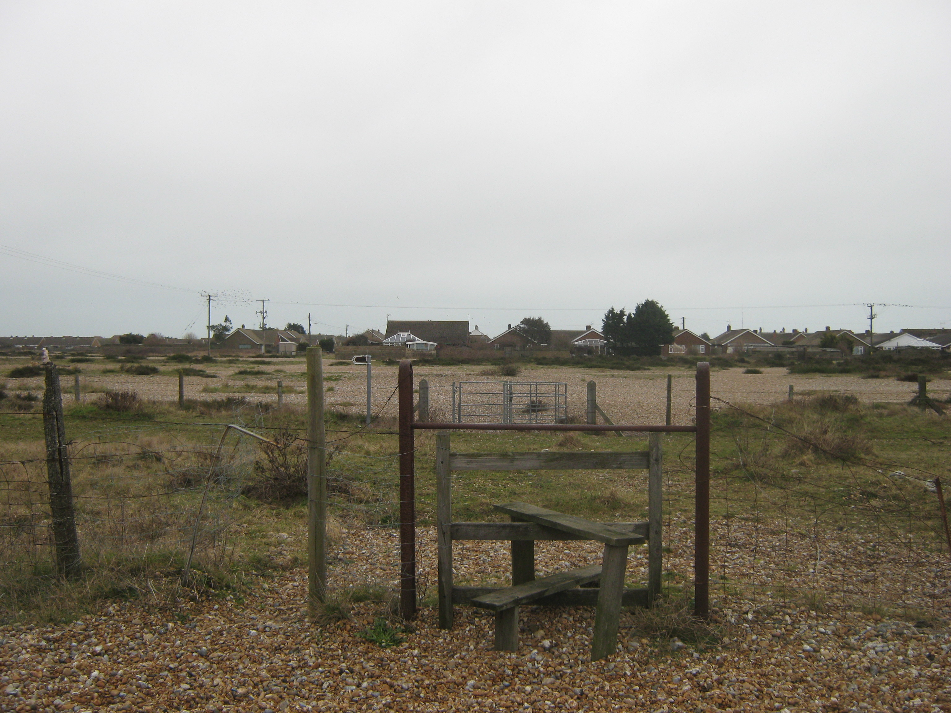 Footpath crosses a dismantled railway near Lade